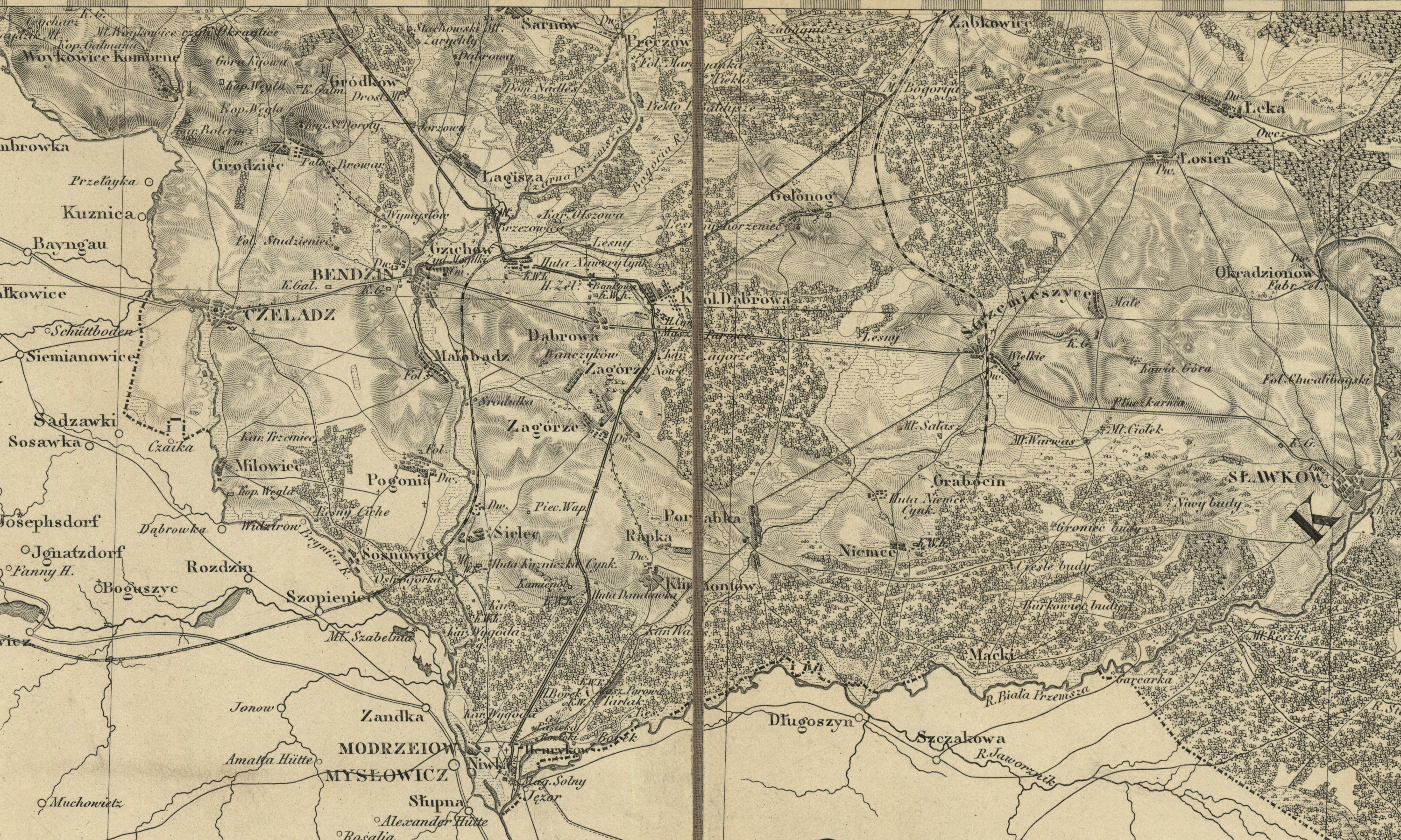 The area of the industrial connurbation of Zagłębie Dąbrowskie, before it was known as such in a year 1843 on a russian military map